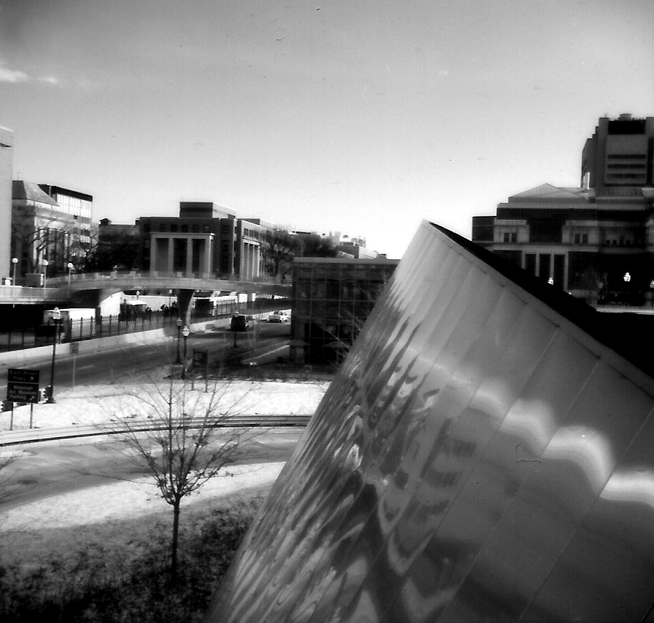 Bridges around Washington Avenue on the University of Minnesota Campus.